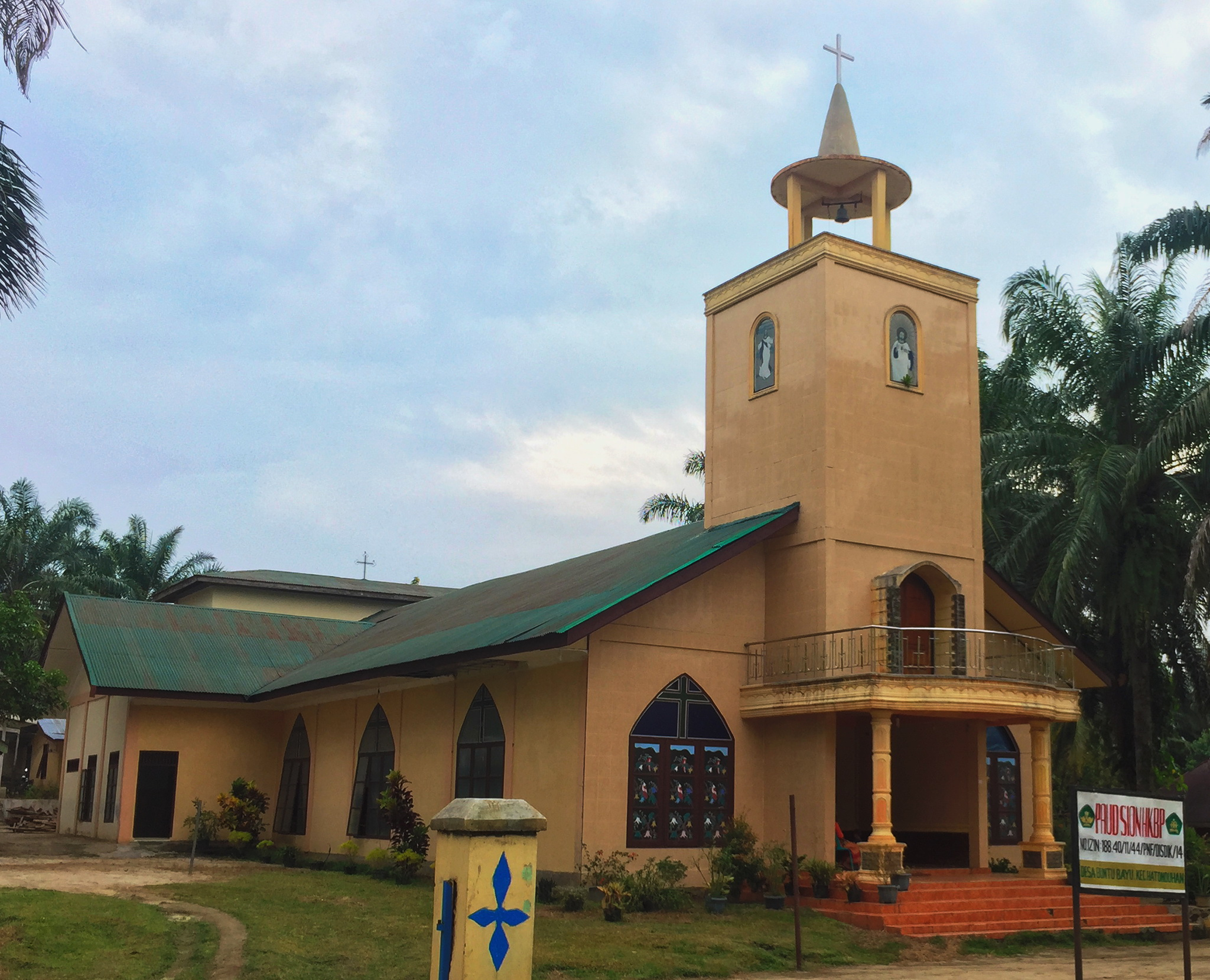 HKBP Sampuran Nauli, Church in Buntu Bayu, Hatonduhan, Simalungun